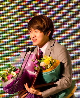 Lee Young-Ho at 2012 Korea e-Sports Awards, on March 2, 2013